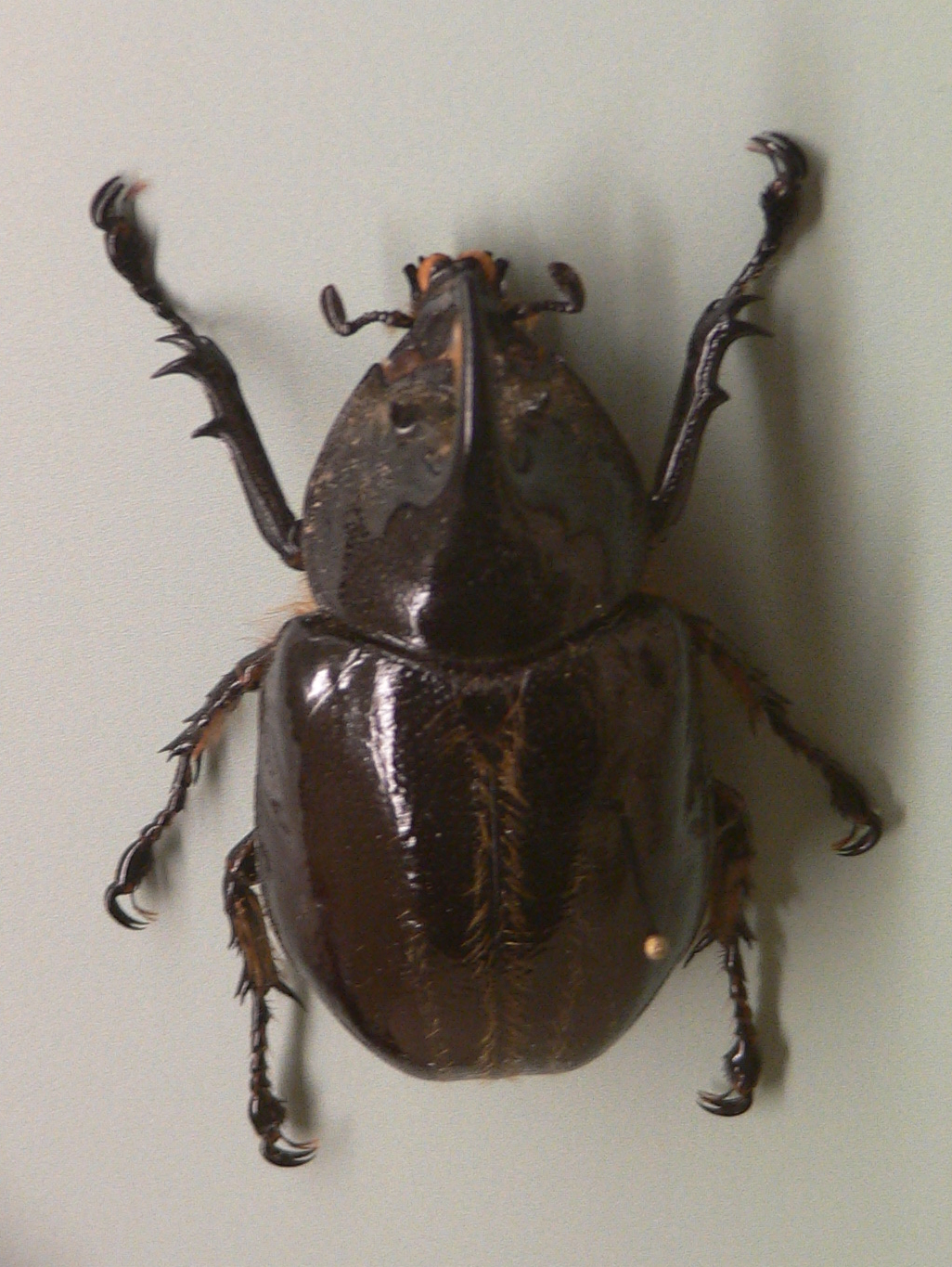 Dynastes neptunus Pictures taken by myself at the Audubon Insectarium